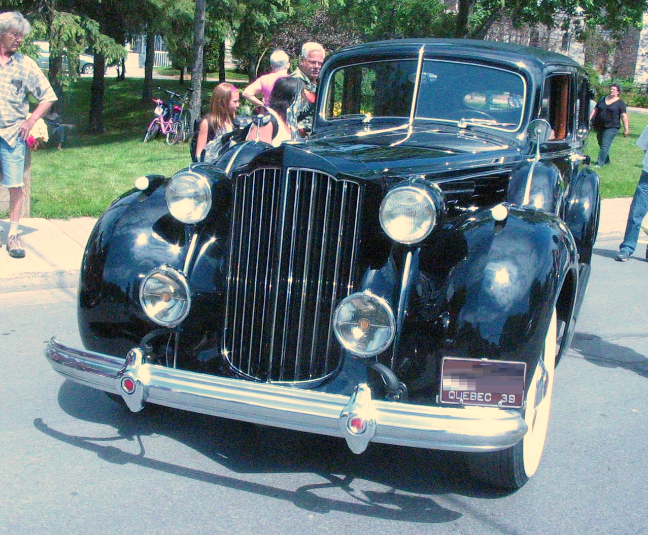 1939 Packard Twelve (17th series) photographed in Laval, Quebec, Canada at the Auto classique Laval.